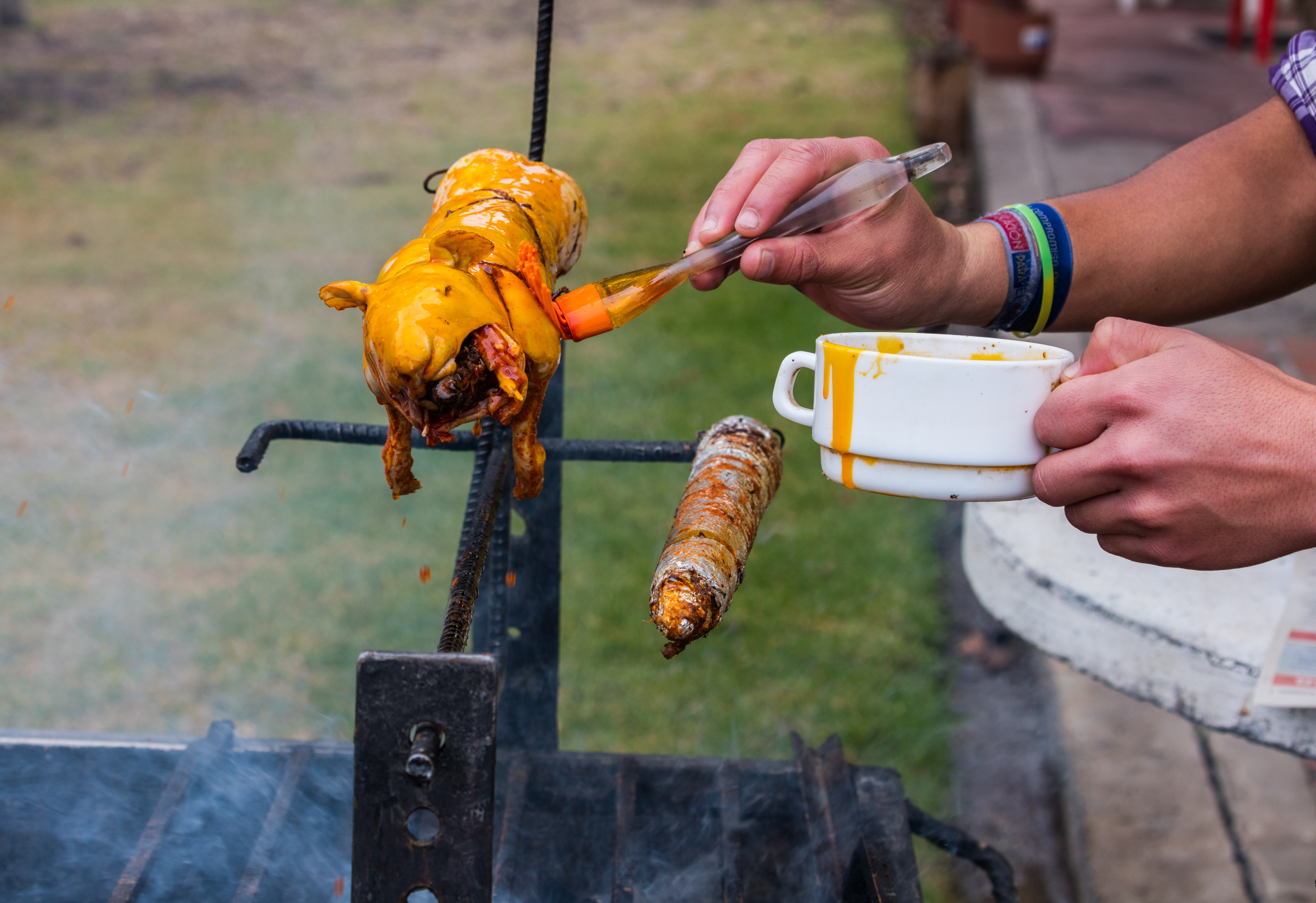 Cooking of Guinean pig (Cavia porcellus), Quito, Ecuador